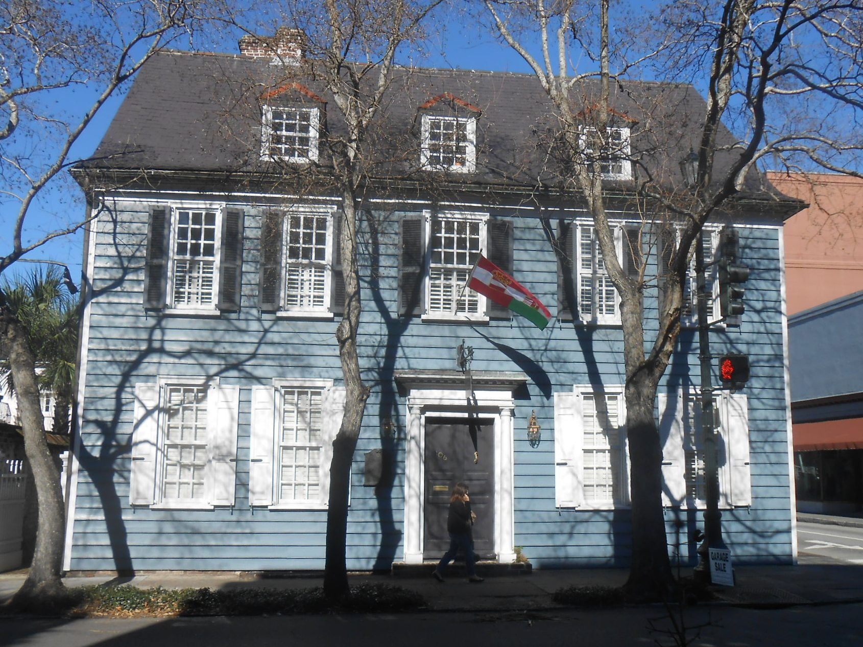 106 Broad Street, Charleston, South Carolina